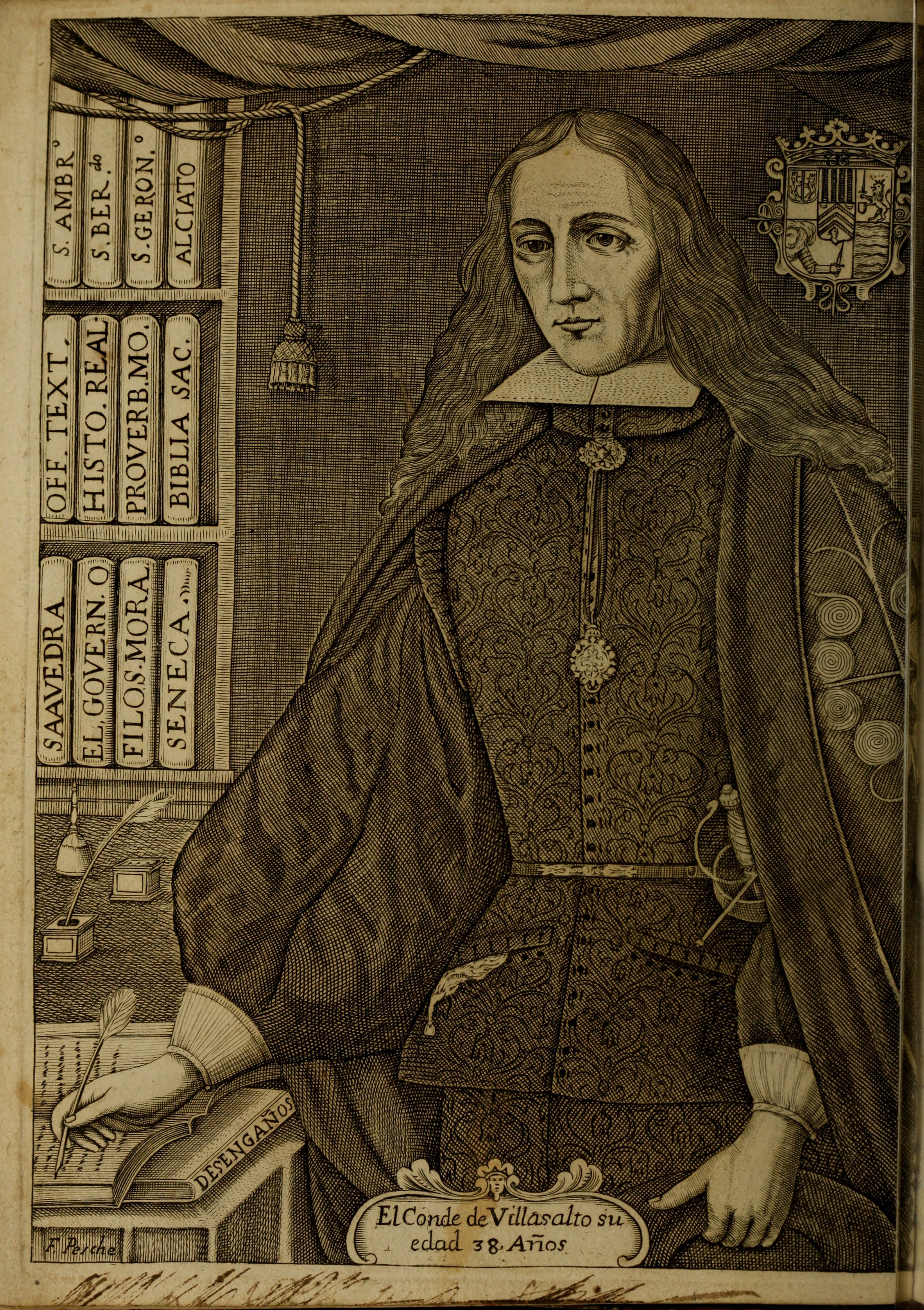 Title: Engaños y desengaños del profano amor : deducidos de la amorosa historia, que à este fin se refiere del ducque D. Federico de Toledo : donde se disuade lo nocivo de esta passion, y se previene su remedio en diversos documentos morales, y politicos ; illustrados de toda erudicion sacra y humana ... Year: 1687 (1680s) Authors: Zatrilla y Vico, Joseph, conde de Villasalto, b. 1648 Subjects: Publisher: En Napoles : Por Joseph Roseli Text Appearing Before Image: i Text Appearing After Image: SEGVNDA PARTE DE LA HISTORIADel Duque Federico. CAPITVLO I. ESPVES que el corazónhumano fe entrega ciega-mente á la paffion del tor-pe amor 5 con dificultad fa-be defapegarfe de aquel de-ley te, que atropelladamen-te eftan gozando fus de-íeos 5 porque corno la vo-luntad ha fugetado fu alue-drio , y el entendimiento fe halla ciego para ver eldaño, corre temerariamente azia el defpeno, fin tenerquien le detenga, y fin hallar quien pueda guiarle:pues andando entre tinieblas, no acierta á veríudcf-camino, hafta que por el encuentra el precipicio.Dedo nace aquella obítinacion , que mueftraa losamantes en fus amores, fn que con ellos aprouechenruegos de Amigos, lagrimas de Padres, auifos deConfefTores, inspiraciones del Cielo, ni vozes de Pre- A dica